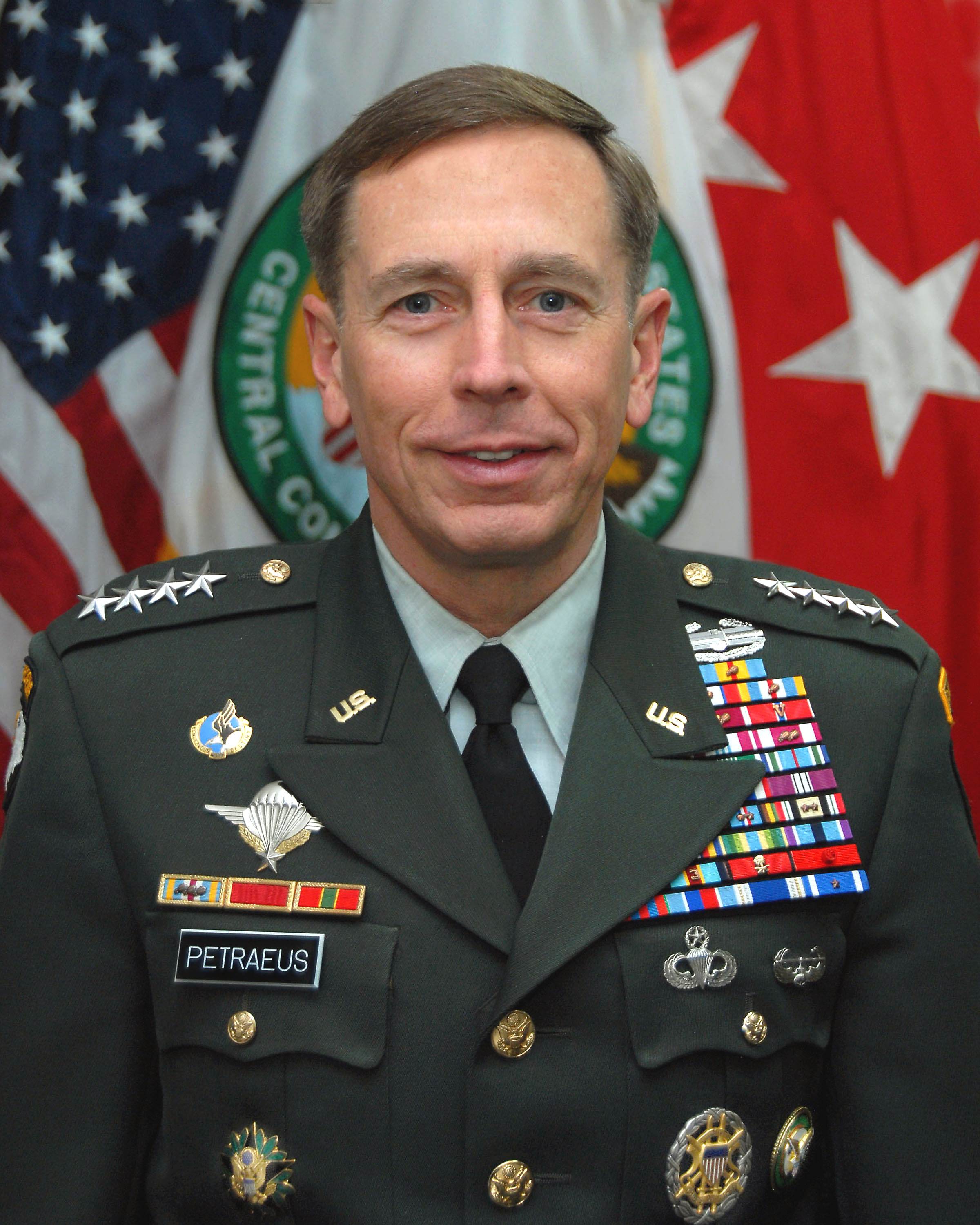 Official photo of General David Howell Petraeus, USA Commander, U.S. Central Command